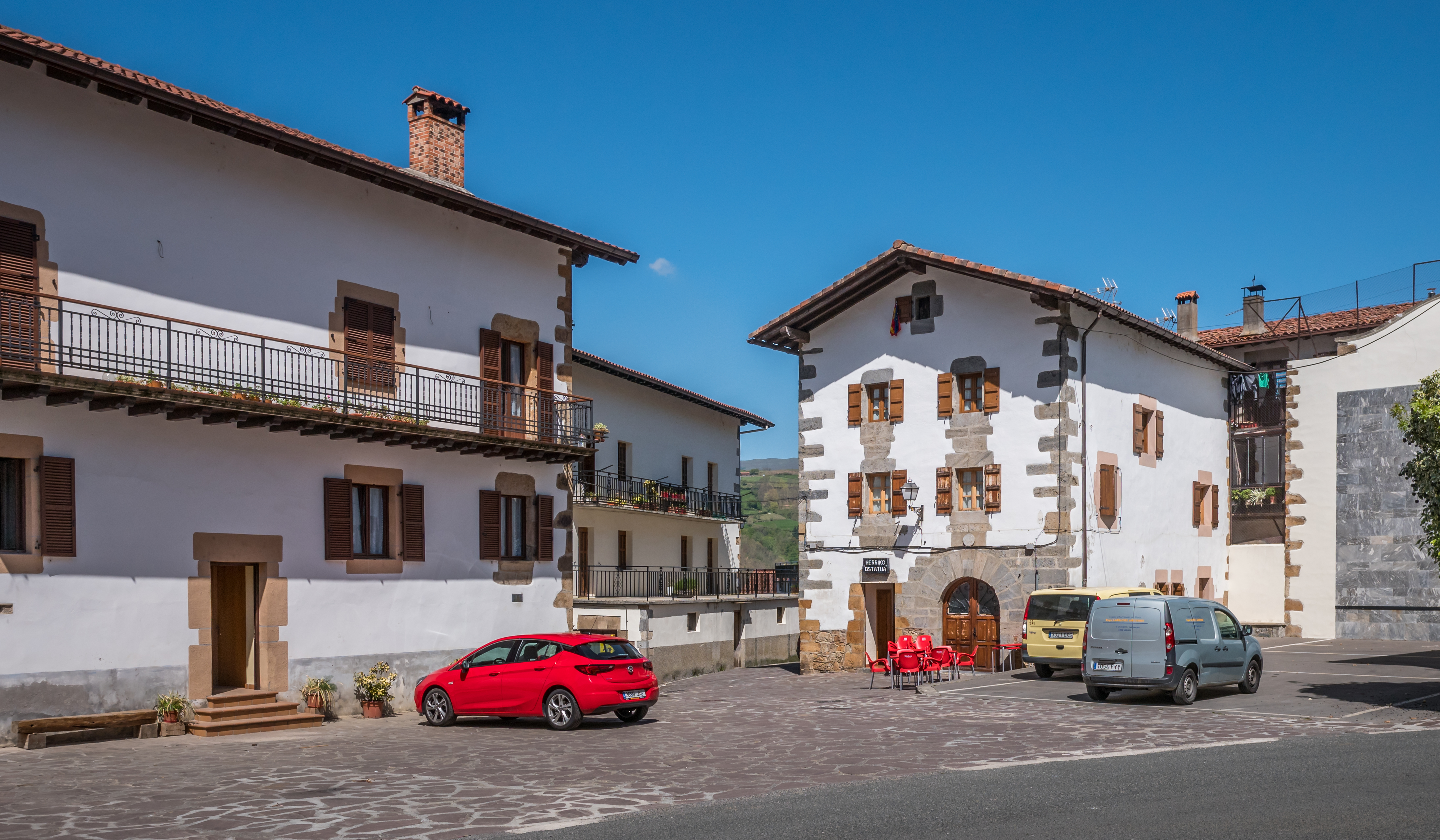 Urroz de Santesteban, Navarre, Spain